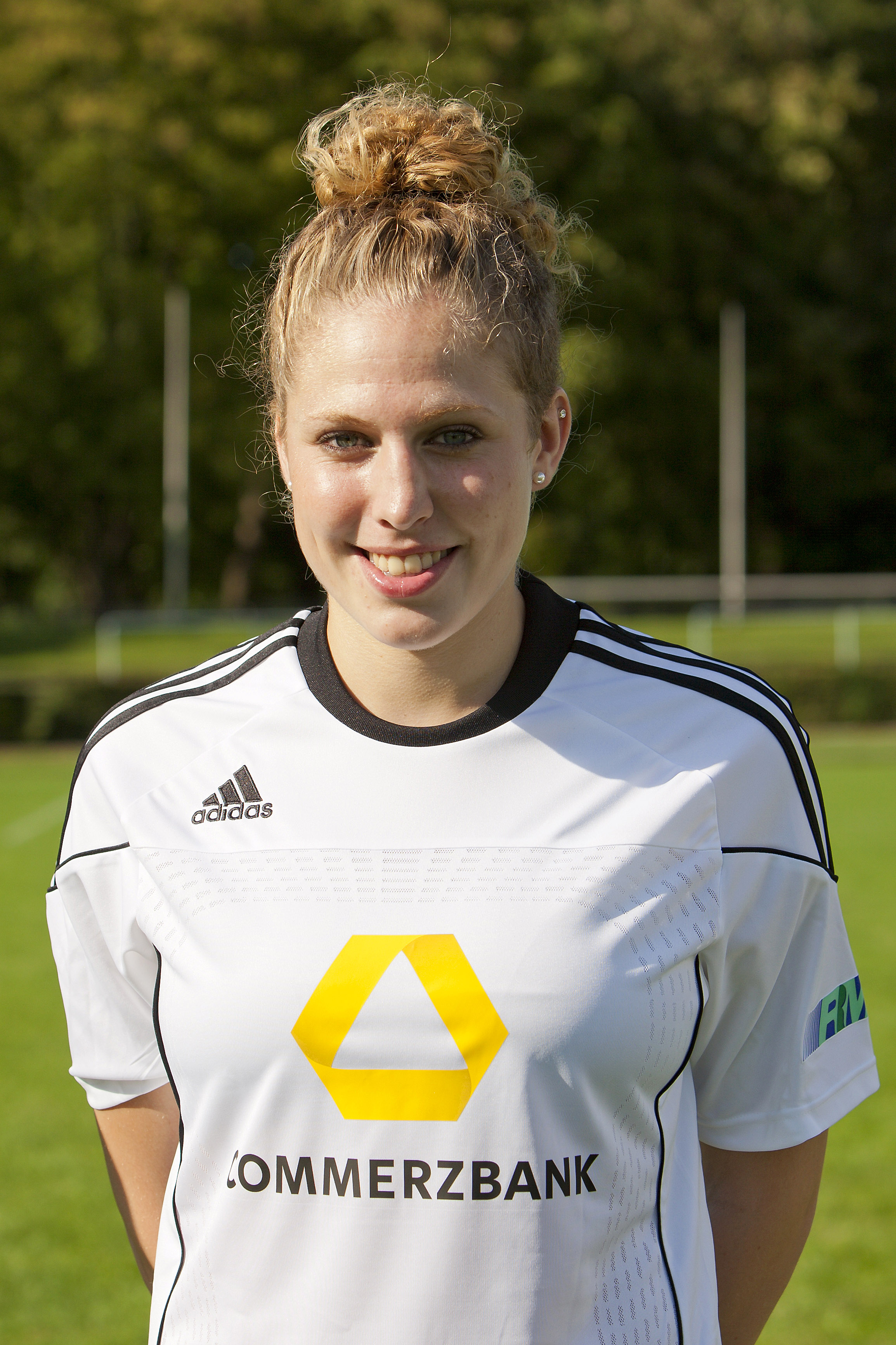 Kim Kulig, August 2011